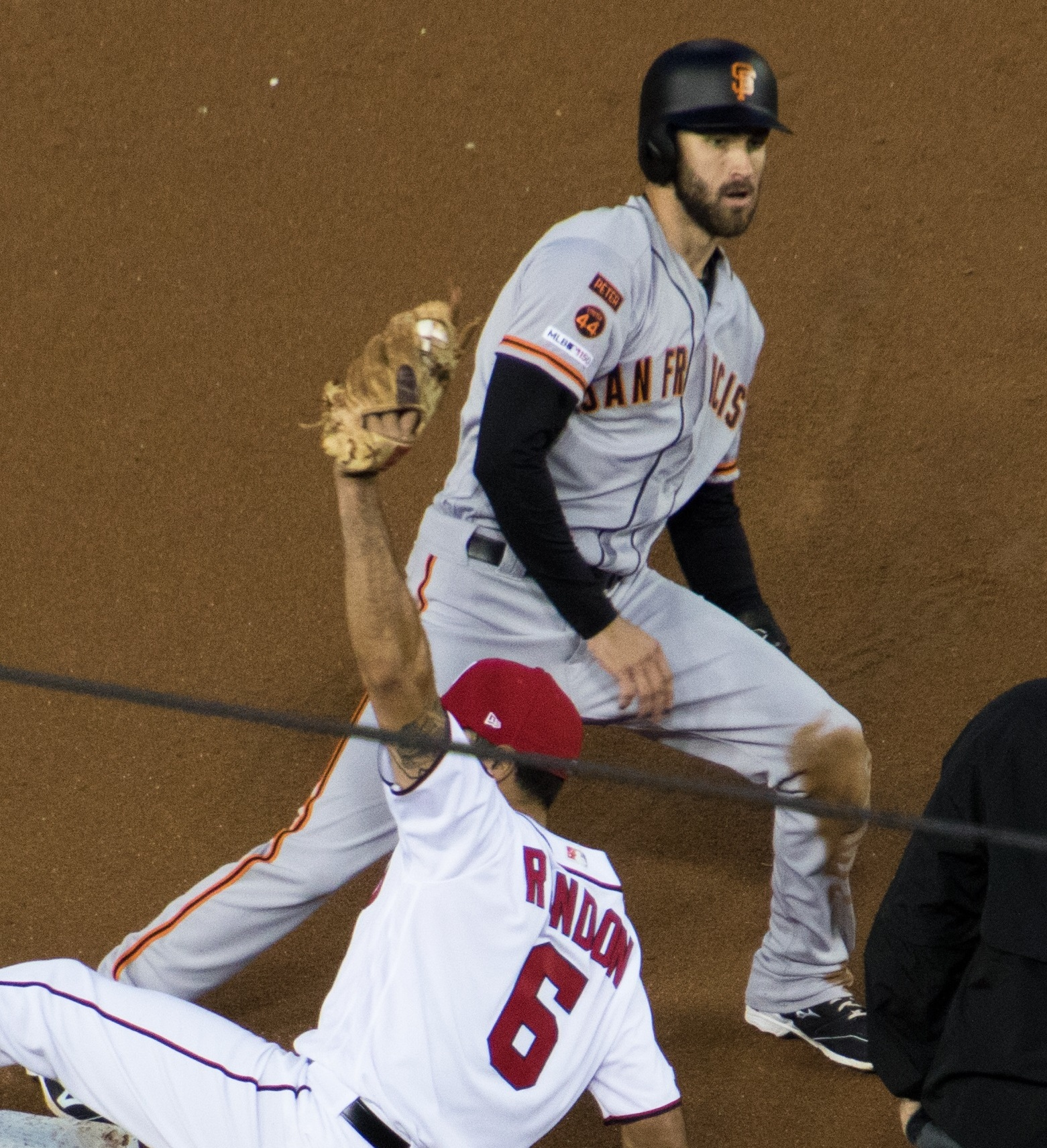 Anthony Rendon of the Washington Nationals tags out Steven Duggar of the San Francisco Giants during a 2019 game at Nationals Park in Washington, D.C.